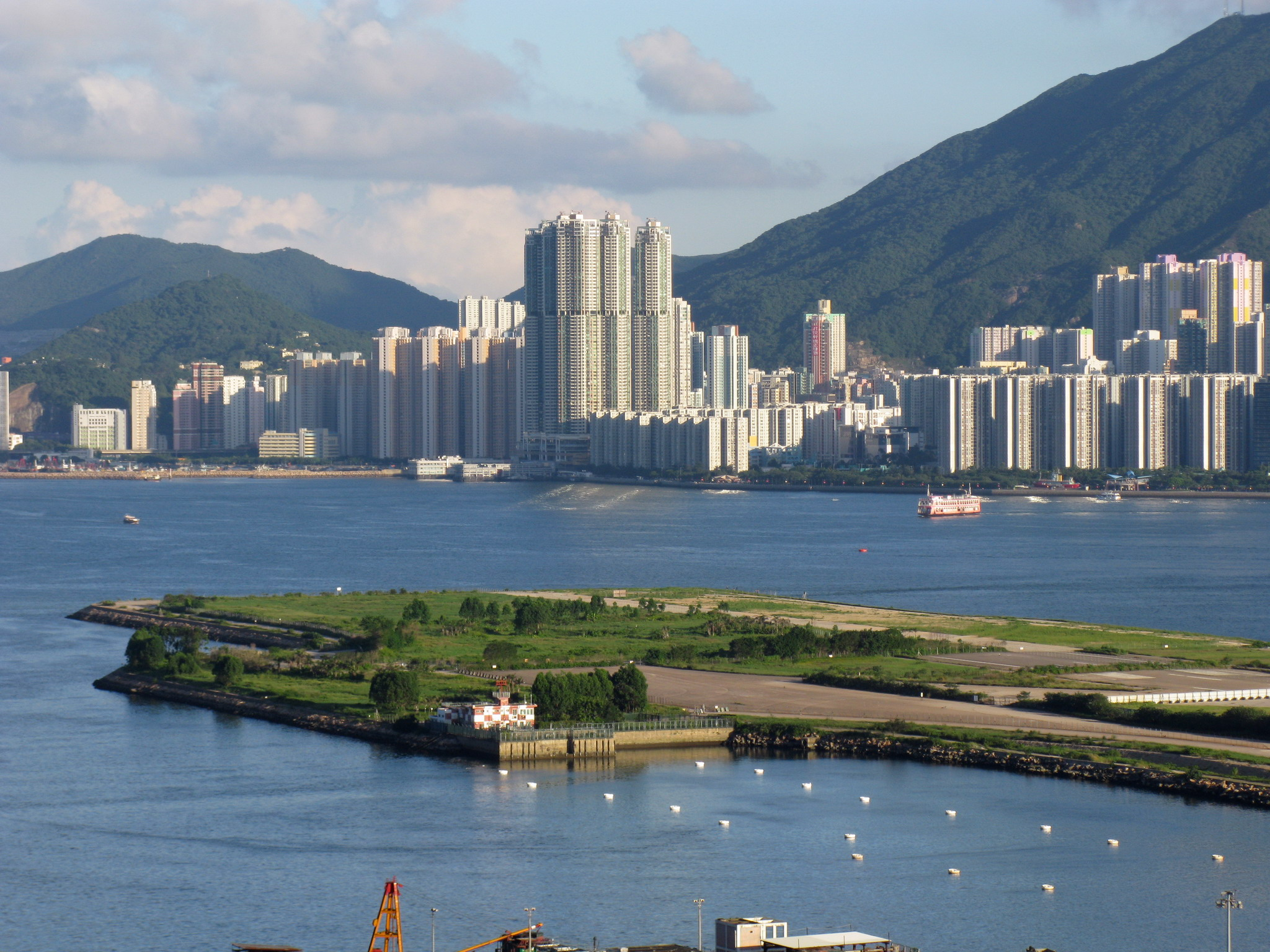 Kai Tak Cruise Terminal Site, located at the Tip of The Ex-Kai Tak Airport Runway